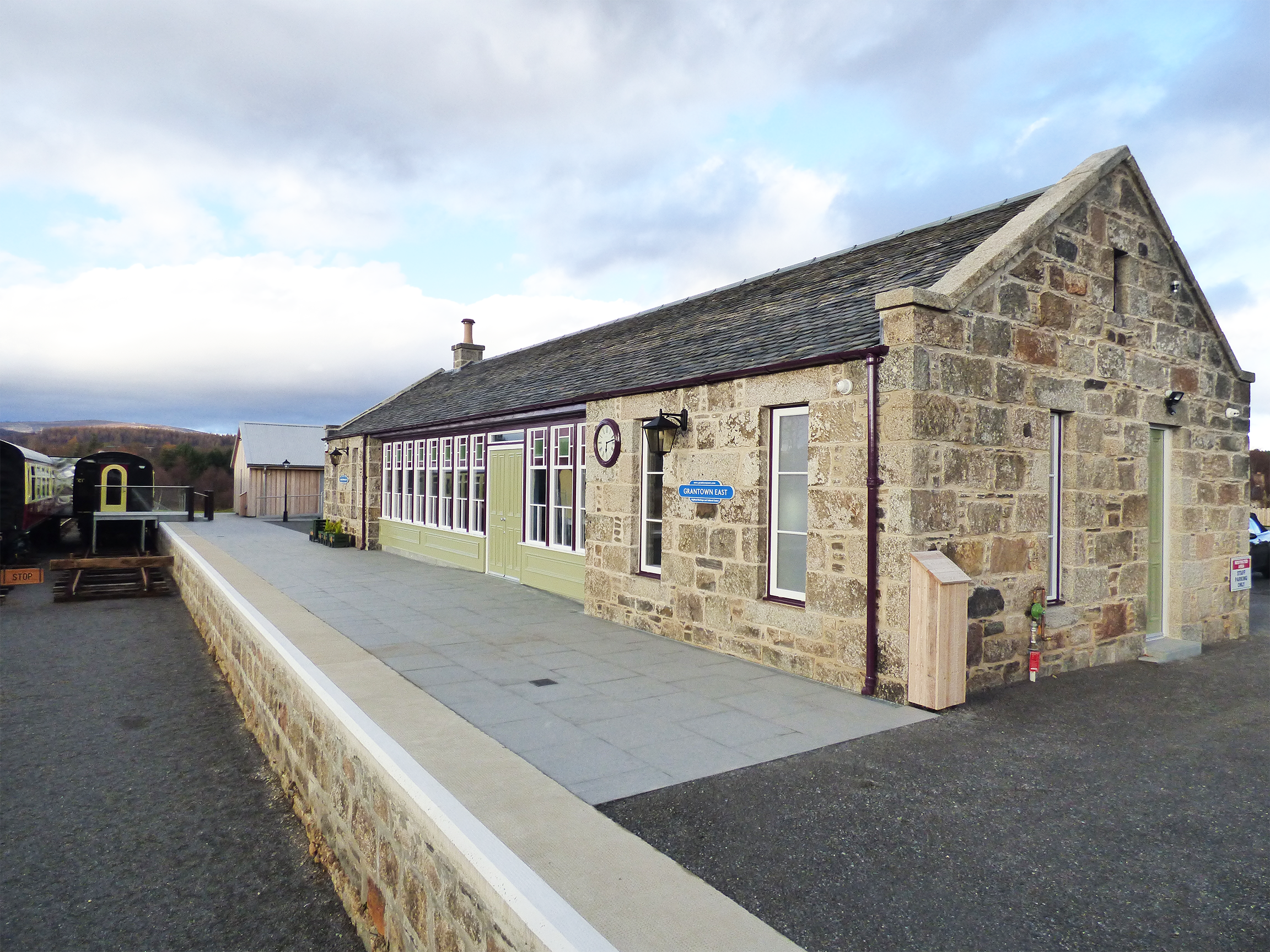 Grantown East is a renovated railway station originally on the Speyside Line. It is now the Highland Heritage & Cultural Centre and includes a shop, restaurant onboard two railway carriages and a mini railway.